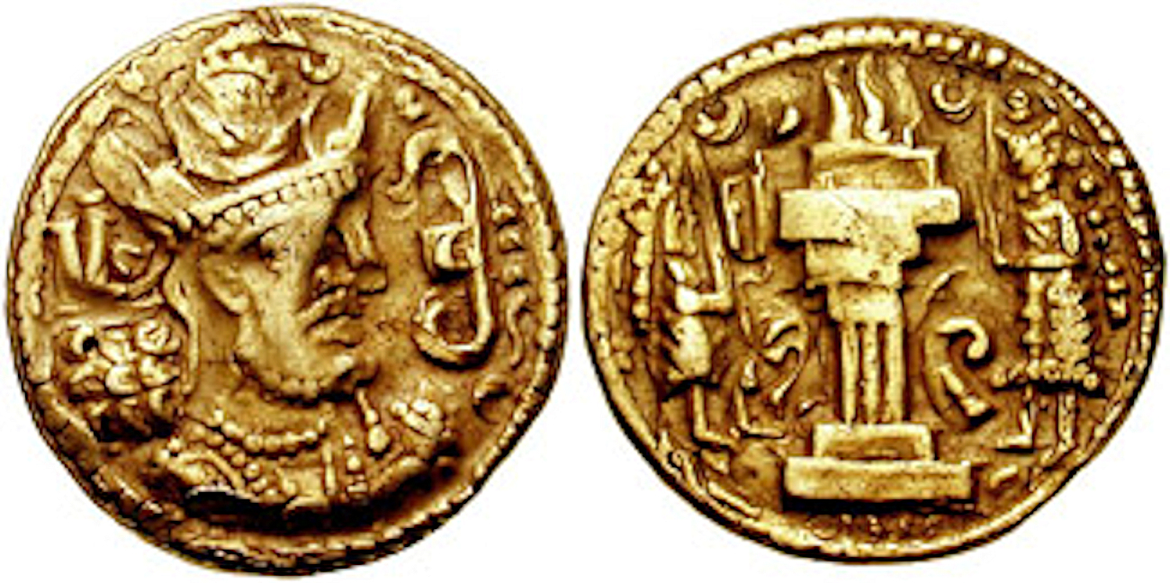 Shapur II 309-379 CE Sind mint